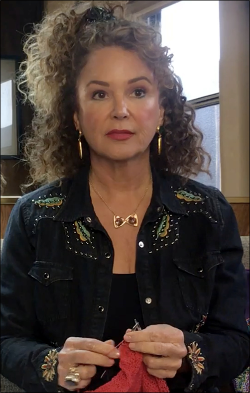 Gail Edwards at Warner Bros. in her dressing room for Fuller House